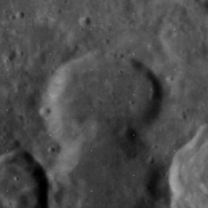 Debes crater, on the moon. Brightness and contrast adjusted from original.